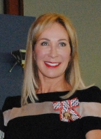 Candy Lane, after receiving her QSM on 25 March 2014